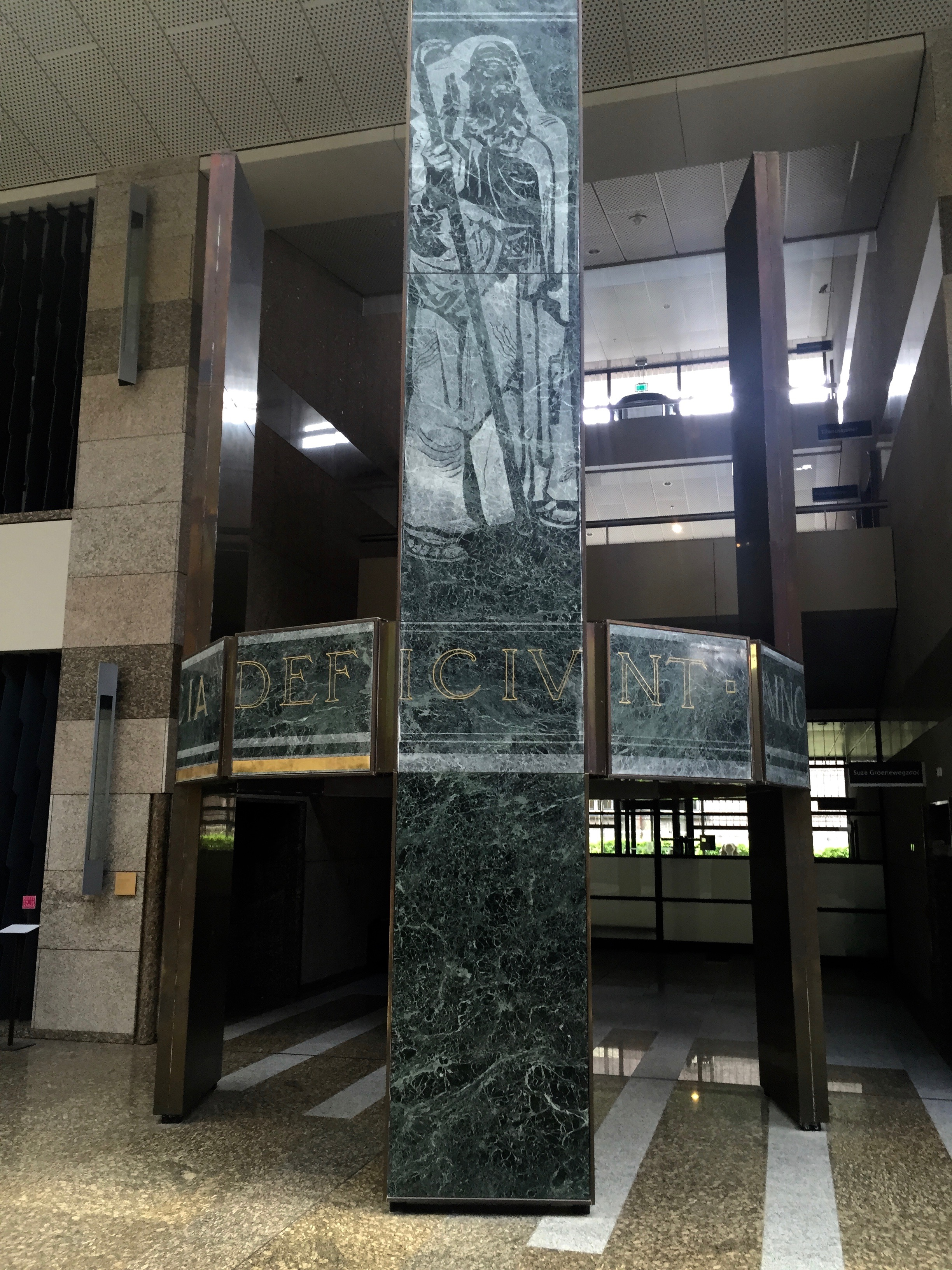 Artwork Lex Wechgelaar made of panels designed by Richard Roland Holst from the building of the Hoge Raad. Moses, Solon, Justinian and Napoleon are depicted with the saying, "Where it stops right, the war begins."